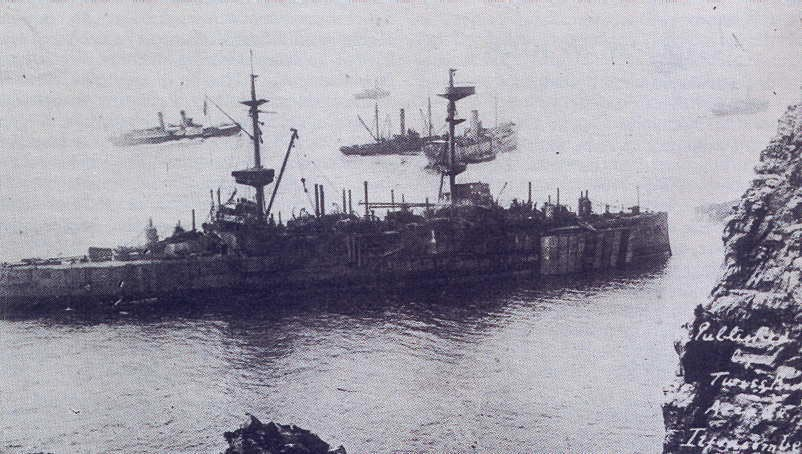 British battleship HMS Montagu (1901) with heavy fittings remoed during salvage in 1906